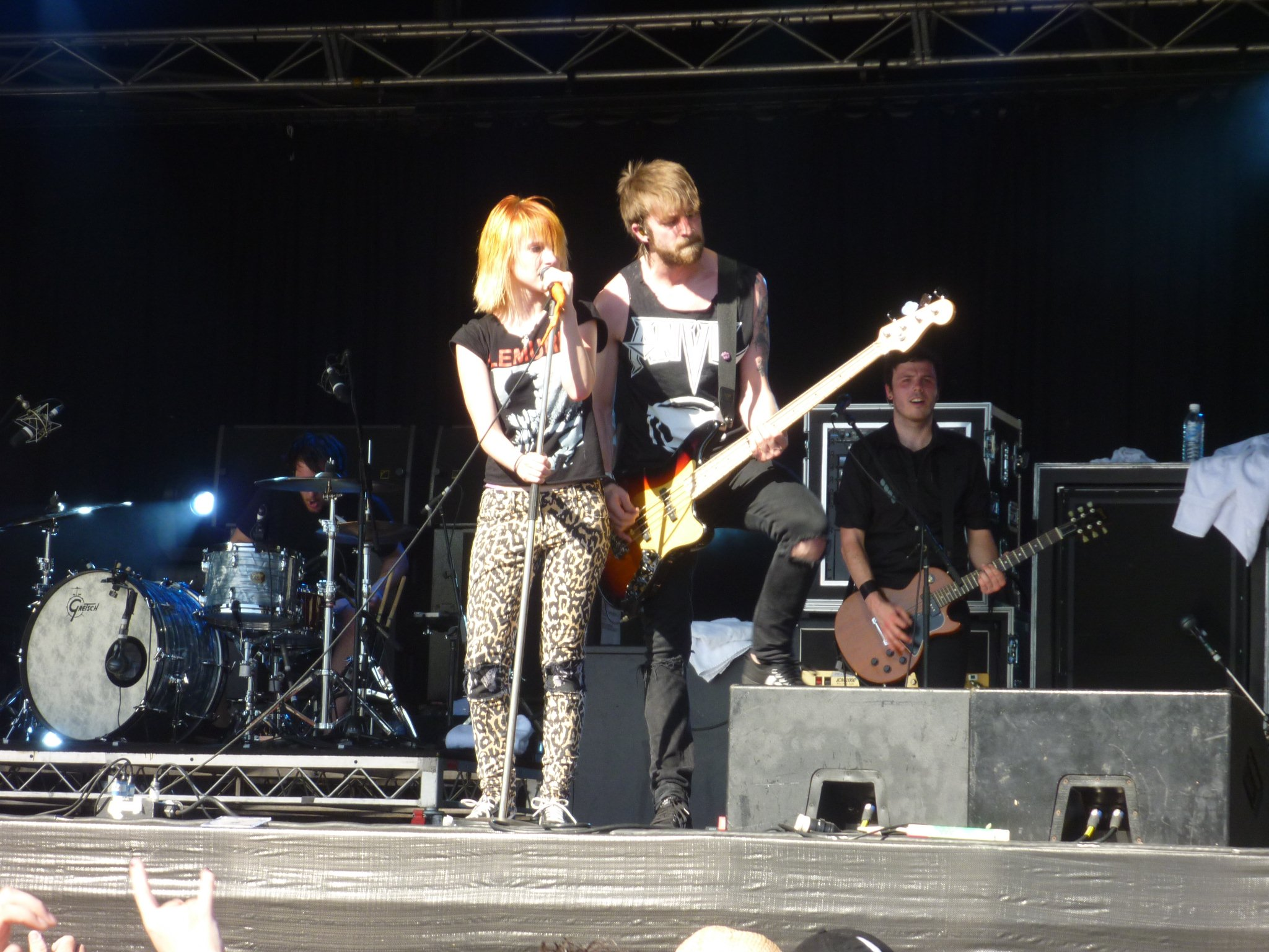 Paramore @ Soundwave Perth 2010